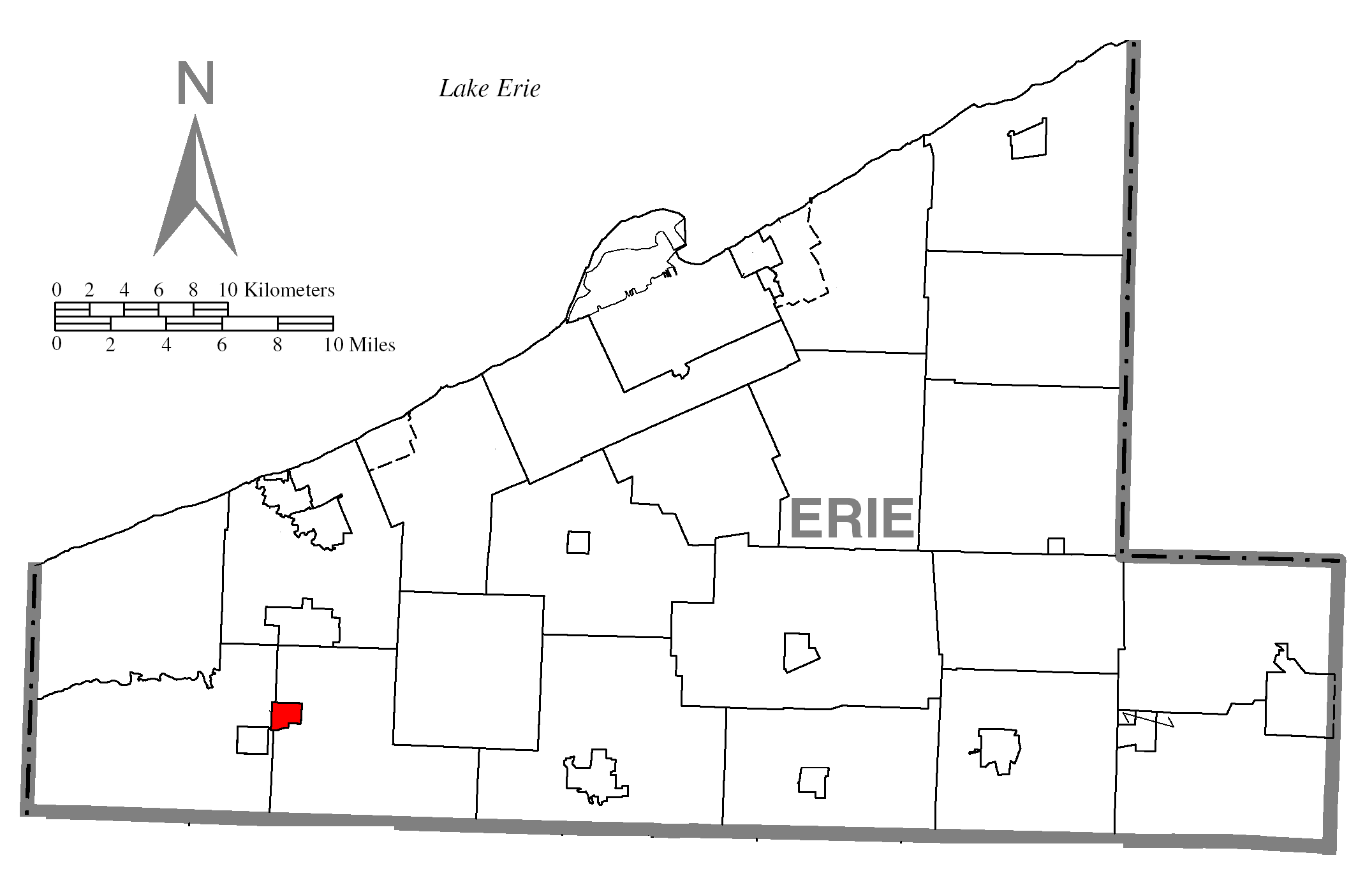 A map of Erie County showing Cranesville, Pennsylvania (alternate) highlighted on the map.